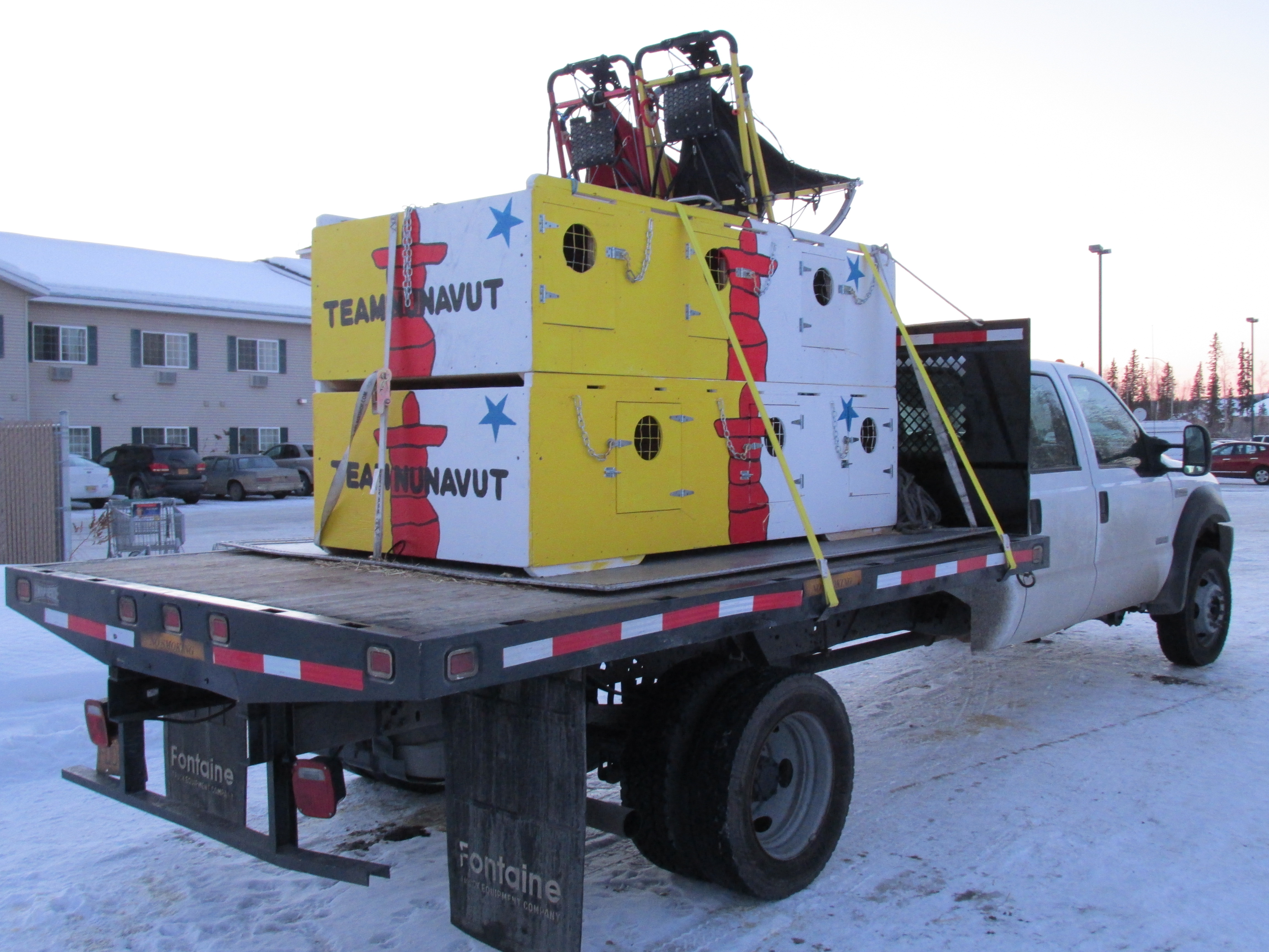 Flatbed truck with sleds and portable kennels for Team Nunavut, parked at a hotel just outside of Fairbanks, Alaska. This was during the 2014 Arctic Winter Games.